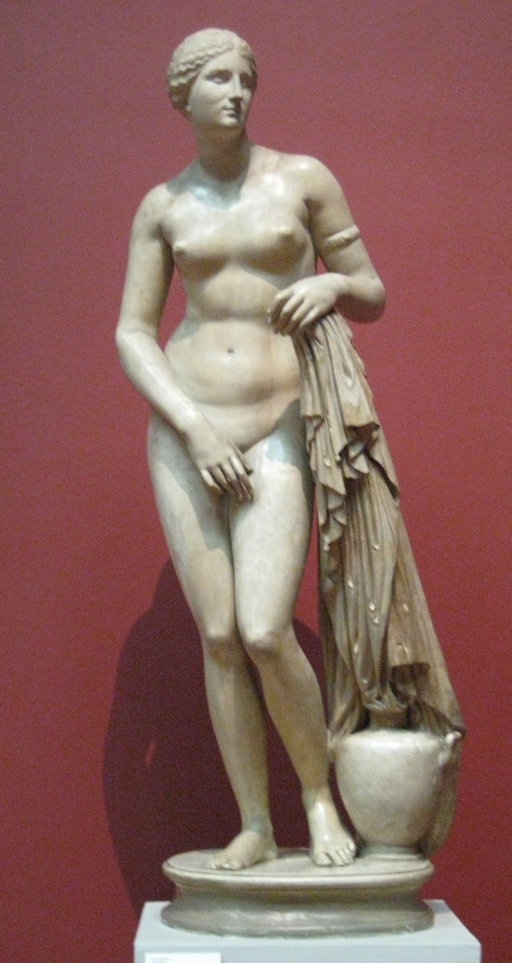 Aphrodite of Cnidus, plaster cast in Moscow Pushkin museum after original of roman marble in Capitolian Museum and Munich Glyptothek